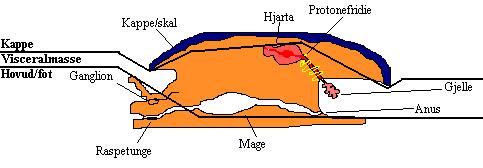 Mollusca, schematic drawing, labels in Norwegian